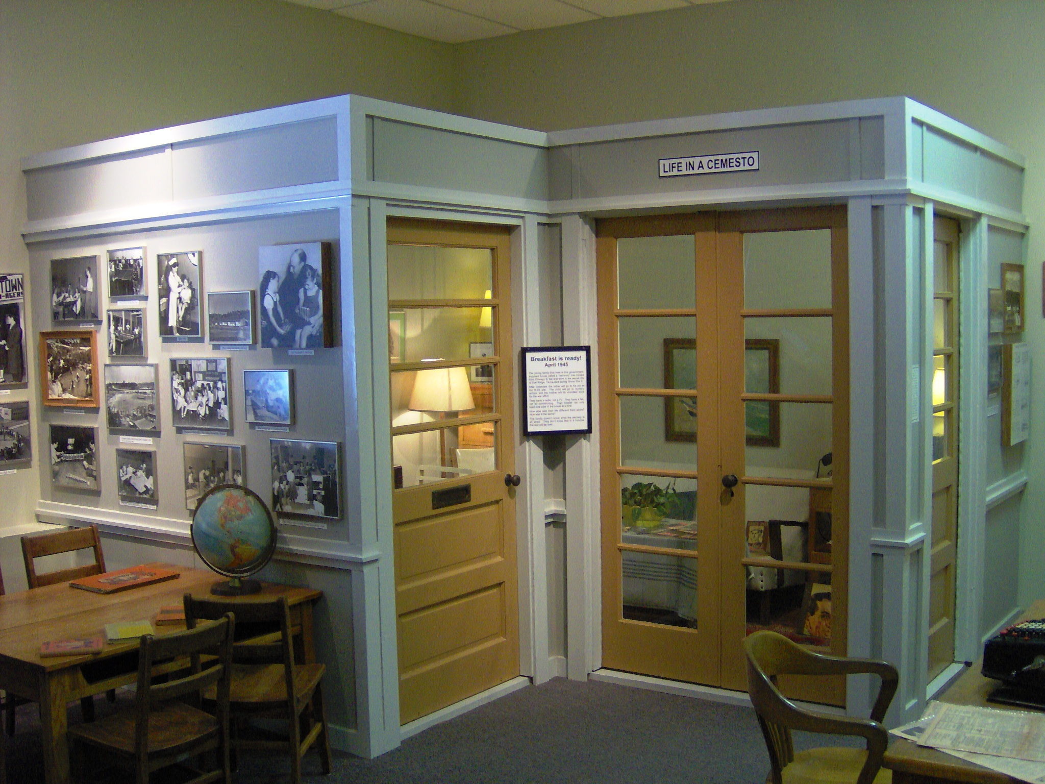 Display of a typical World War II-era "cemesto" at the Oak Ridge Childrens Museum in Oak Ridge, Tennessee, USA. Cemestos were small, pre-fabricated houses used by Oak Ridge's Manhattan Project employees in the early 1940s.